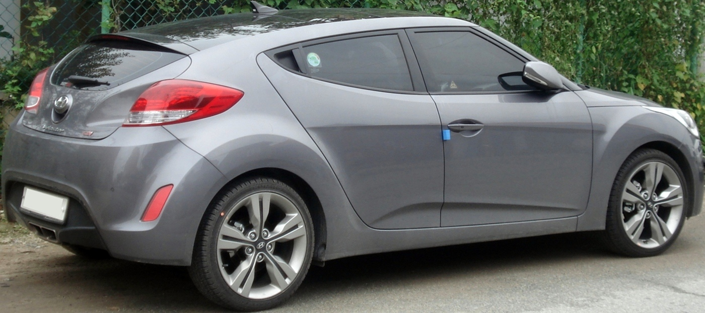 Hyundai Veloster